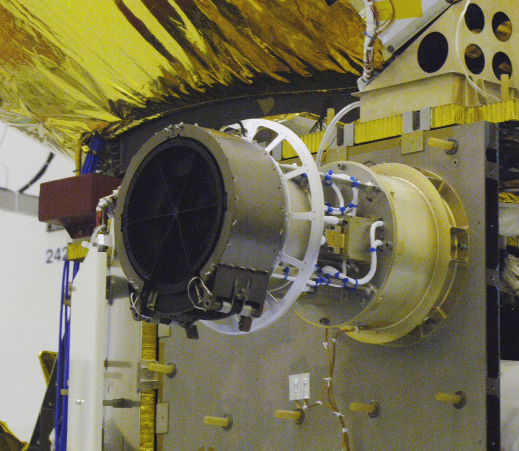 In the NASA Kennedy Space Center’s Payload Hazardous Servicing Facility, the Solar Wind Around Pluto (SWAP) instrument has been mounted on the corner of the New Horizons spacecraft (Oct. 6, 2005).